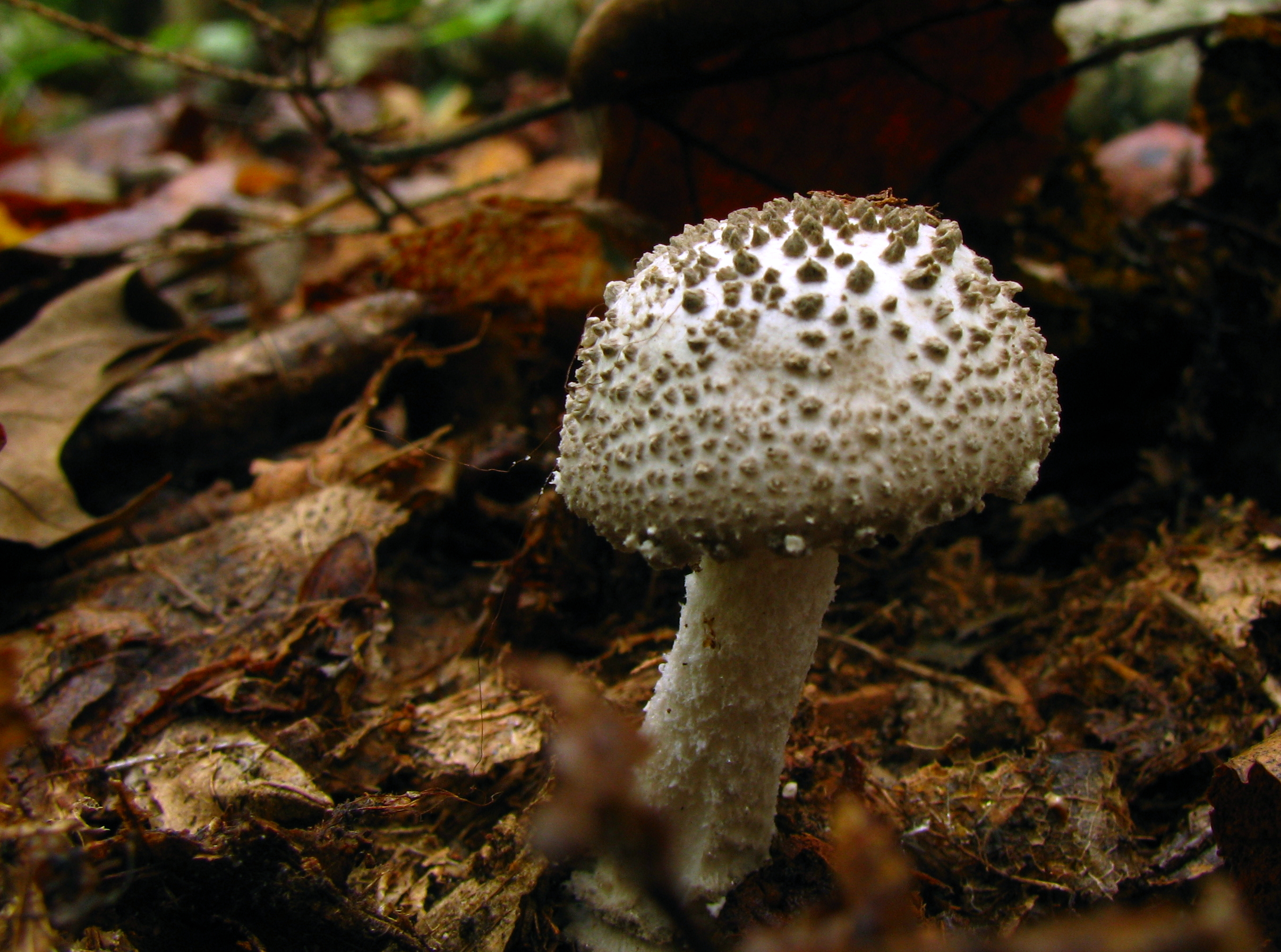 Amanita onusta (Howe) Sacc. Location: Cranberry Wilderness, Monongahela National Forest, West Virginia, USA Observation Notes: This little Lepidella did not have much of a smell. For more information about this, see the observation page at Mushroom Observer.